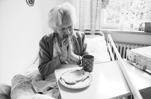 Resident of a nursing home in Munich (Germany)